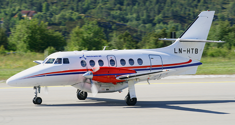 Helitrans J32